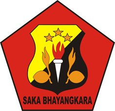 this is saka bhayangkara's logo